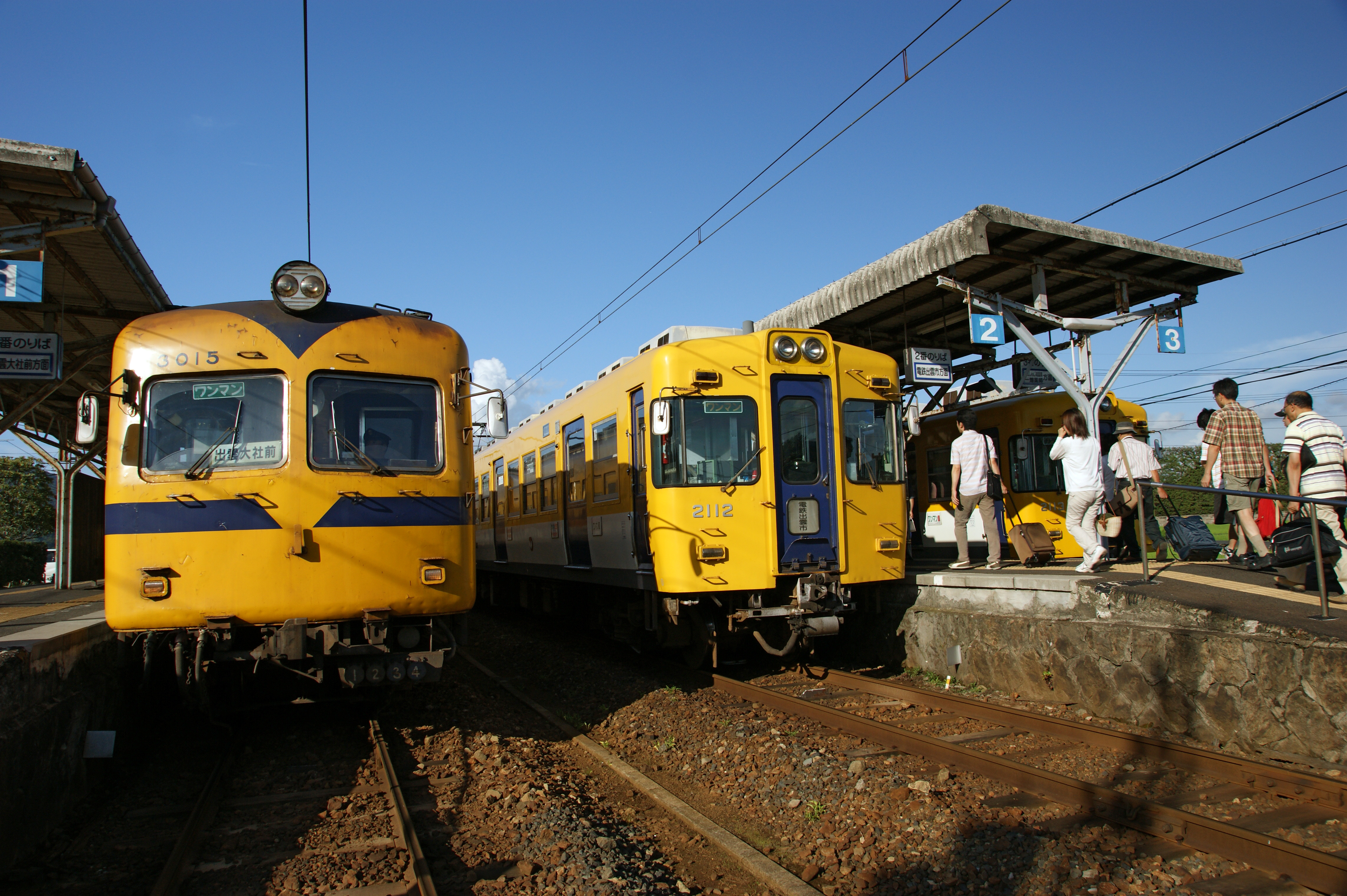 Kawato Station in Izumo, Shimane prefecture, Japan